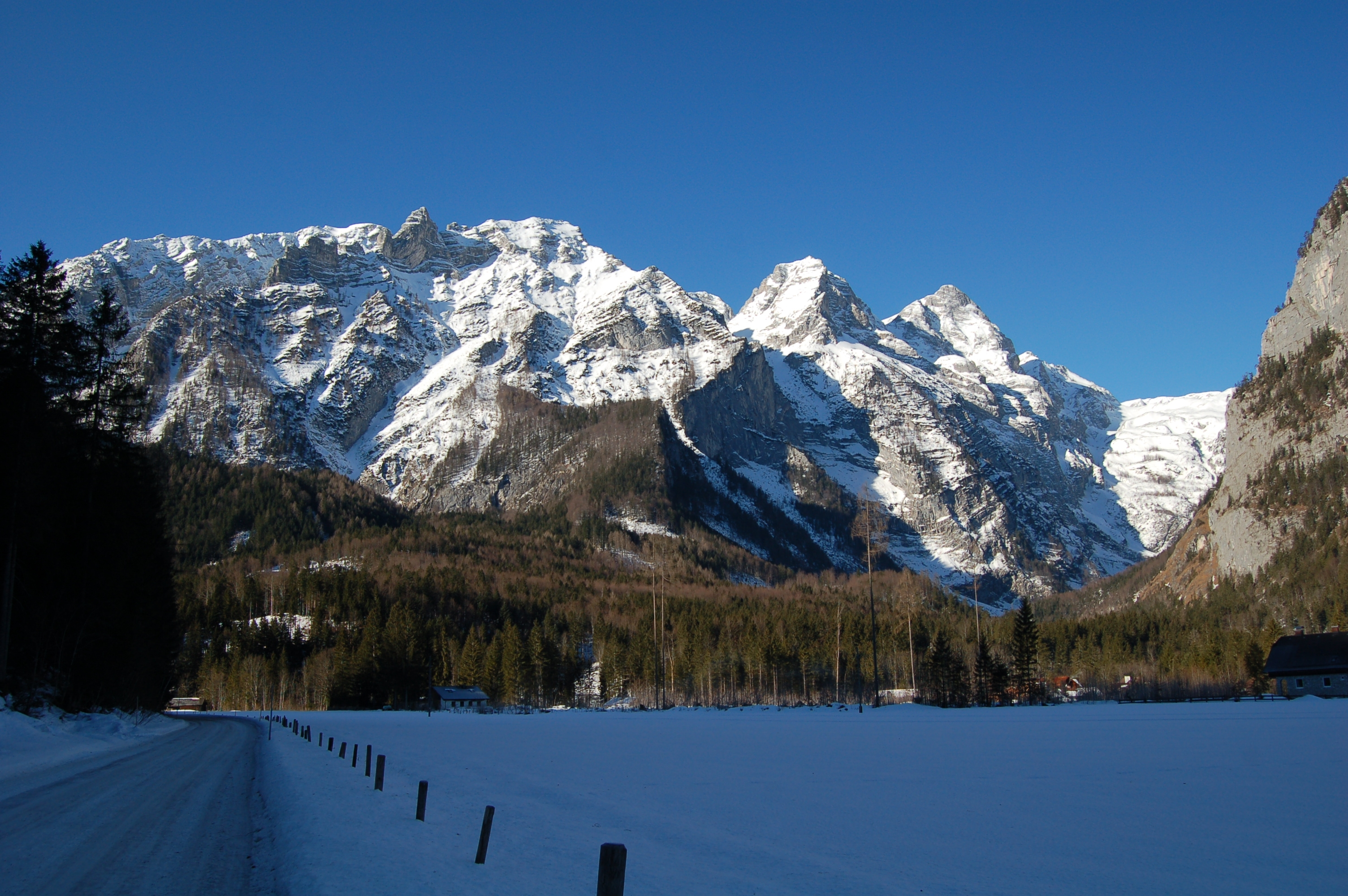 Brandleck (2247m), Kleiner Hochkasten (2352m), Großer Hochkasten (2389m), Bühelalm, Feuertalberg (2376m) seen from Weißenbach, Hinterstoder, Upper Austria.